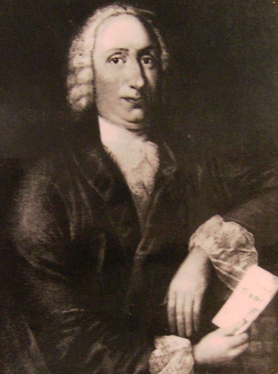 Black & White-Repro of 18th century painting.